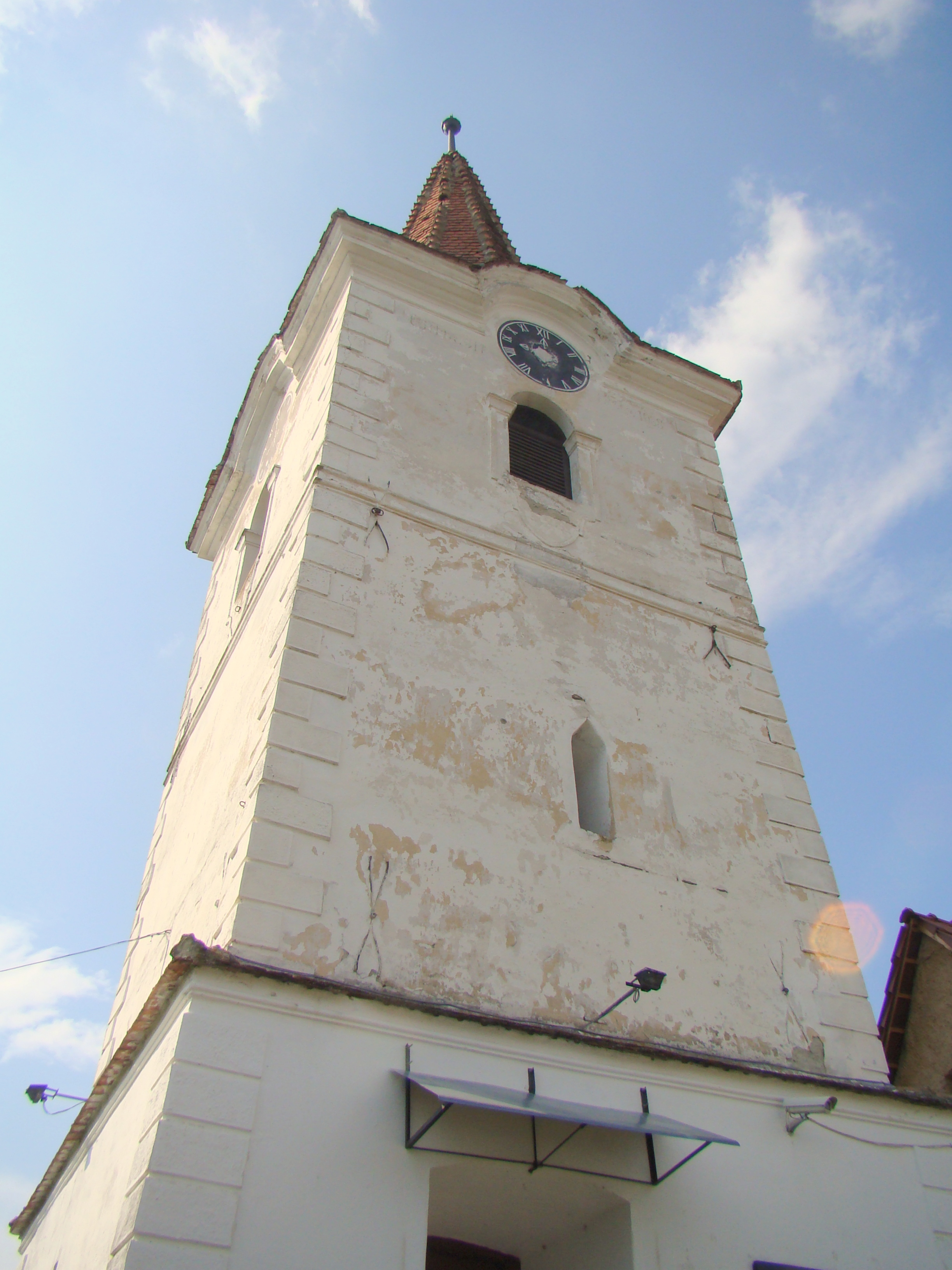 Lutheran church in Hălmeag, Brașov County, Romania